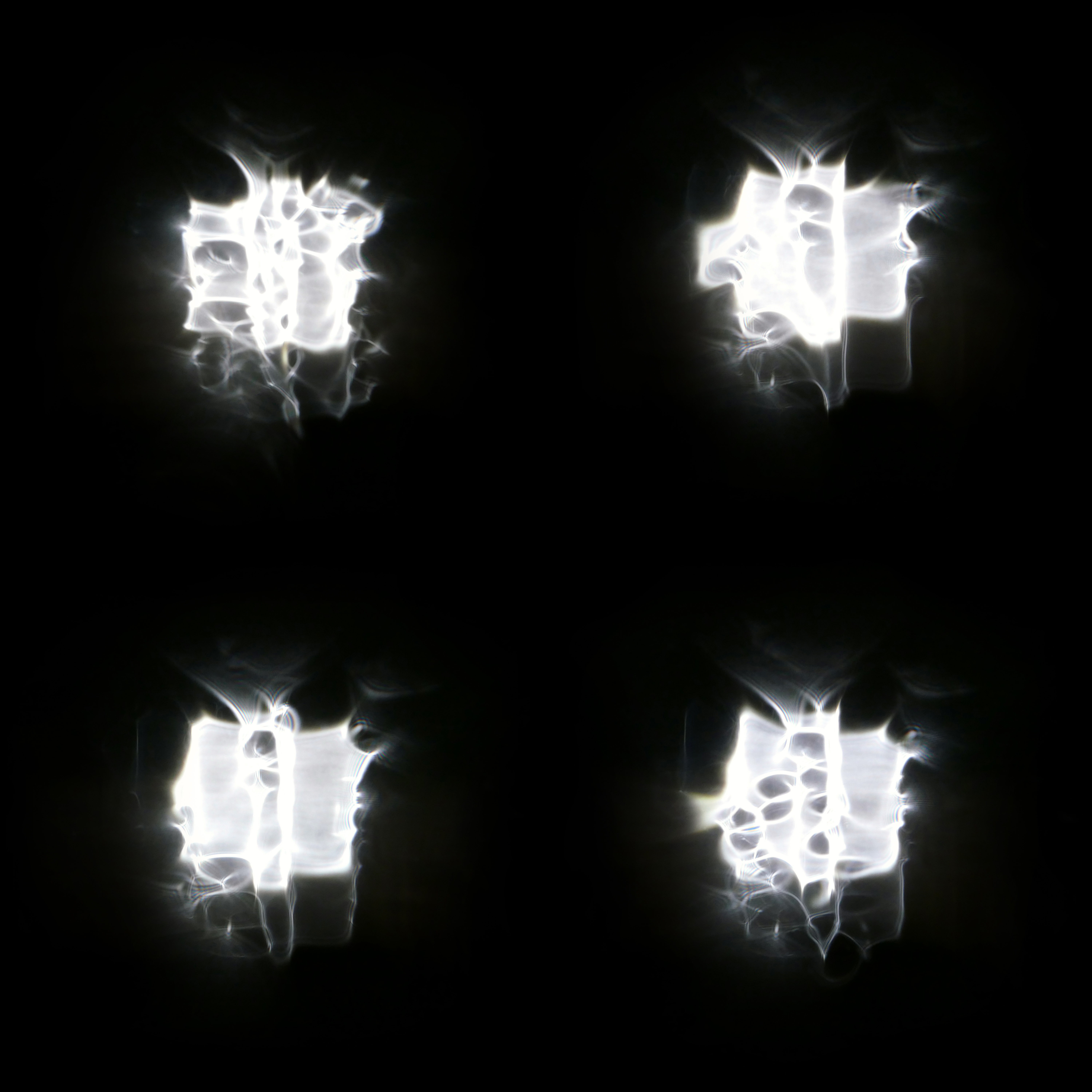 A composition of four photos of a halogen floodlight far away as seen through heavy rain hammering on and pouring down a double-glazed window. Gåseberg, Lysekil Municipality, Sweden.